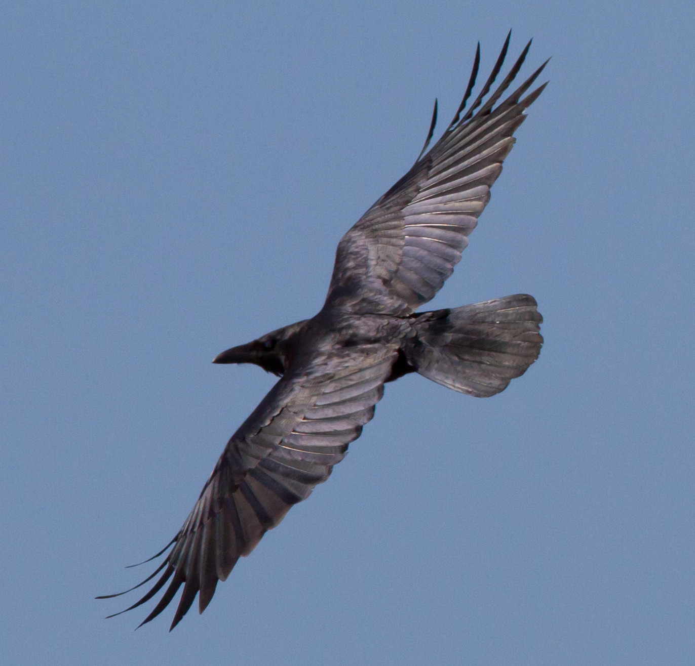 A crow circles a dead Kangaroo